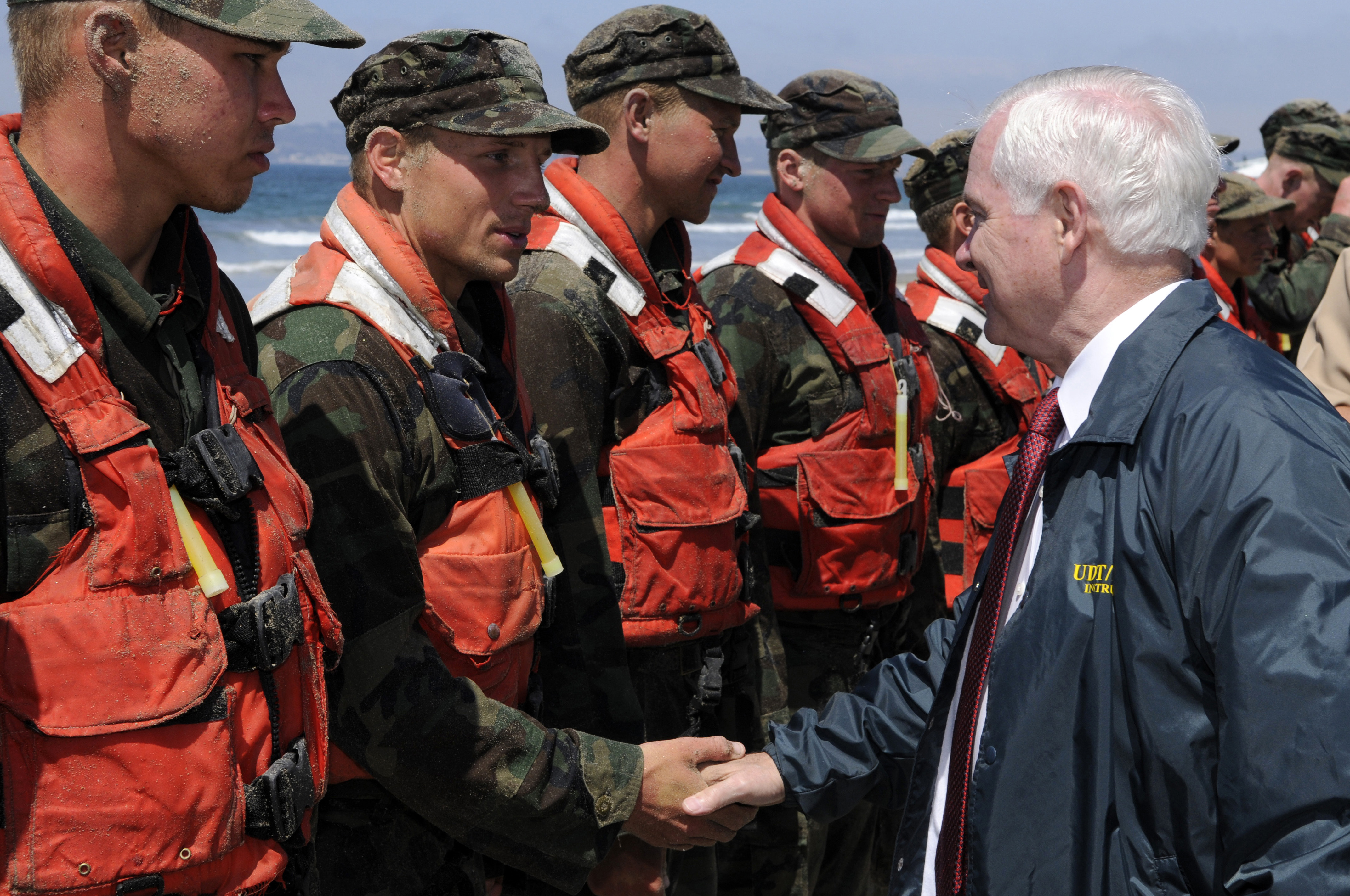 SAN DIEGO, Calif. (Aug. 13, 2010) Secretary of Defense Robert M. Gates congratulates a candidate from Basic Underwater Demolition/Sea, Air and Land (BUD/S) class 284 after securing him and his peers from Hell Week. During the 107-hour Hell Week, dozens of candidates endure constant stressful training with little sleep, making it one of the most arduous evolutions of the 50-week SEAL candidate training at the Naval Special Warfare Center in San Diego. (U.S. Navy photo by Mass Communication Specialist 2nd Class Kyle D. Gahlau/Released)